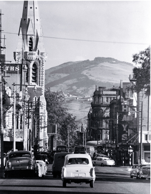 View from the Colombo Street bridge, near Kilmore Street. The Sign of the Takahe can be seen in the distance in this extremely clear view south along Colombo Street.